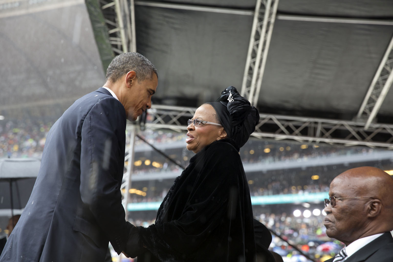 President Obama greets Graca Machel, Nelson Mandela's widow, after his speech at the memorial service. (Official White House Photo by Pete Souza)